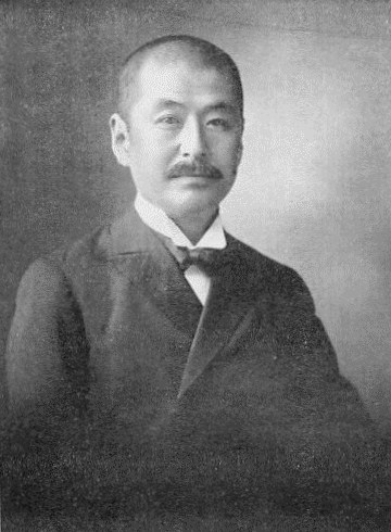 Takanori Mouri